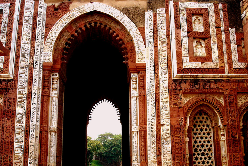 Alai Darwaza within Qutub Minar Complex